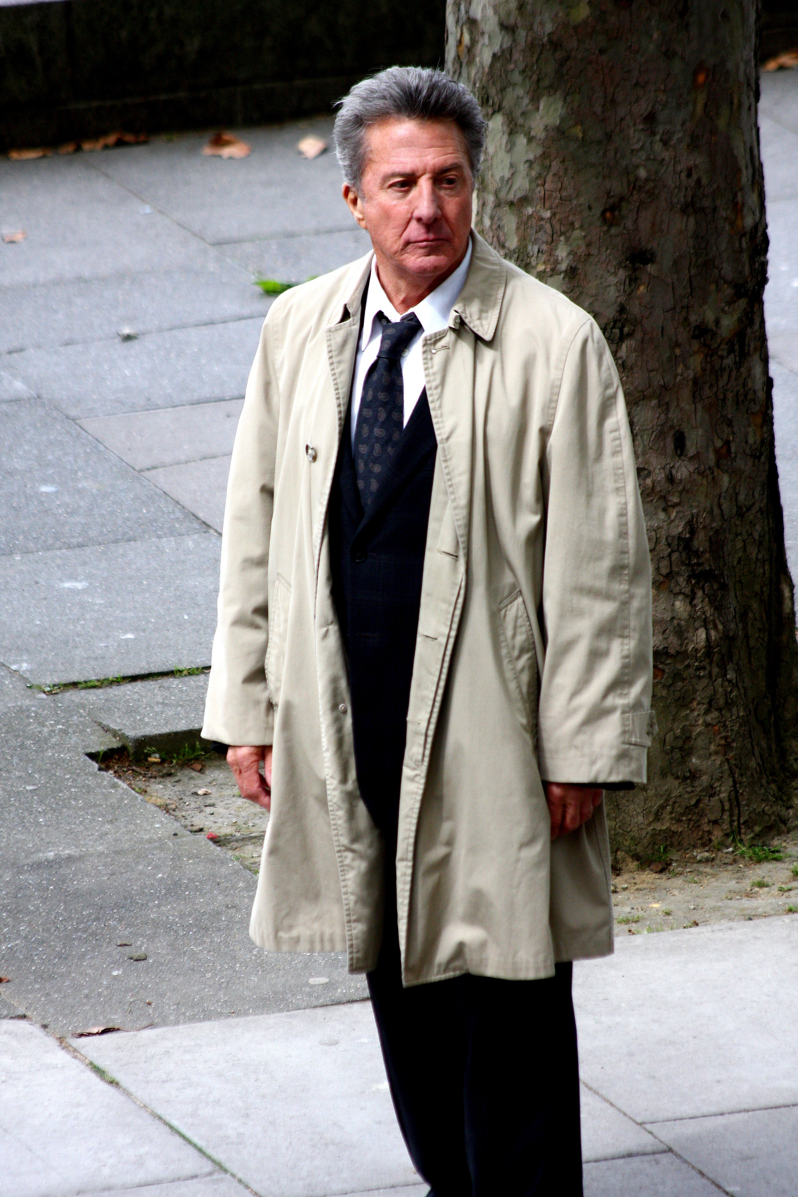 Dustin Hoffman during filming of the ending of Last Chance Harvey.